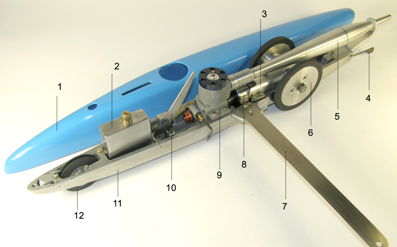 Model tether racing car with engine 1.5 cm³